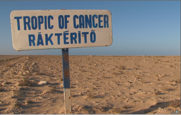 Tropic of Cancer sign in Western Sahara